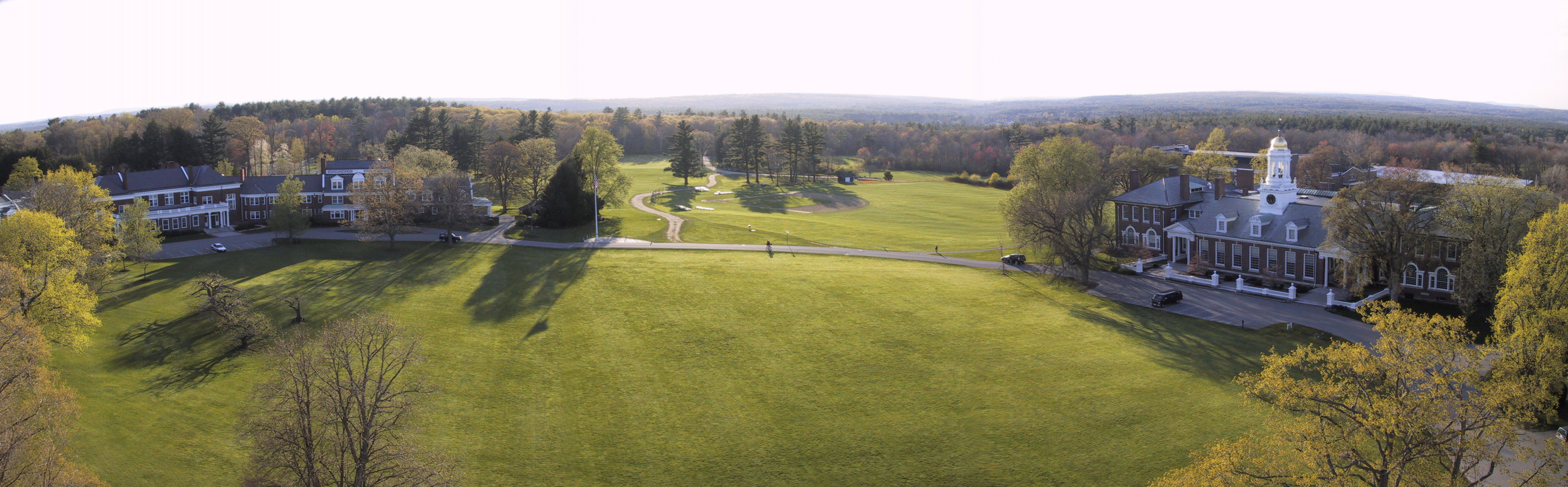 Groton School, as viewed from the top of the chapel.